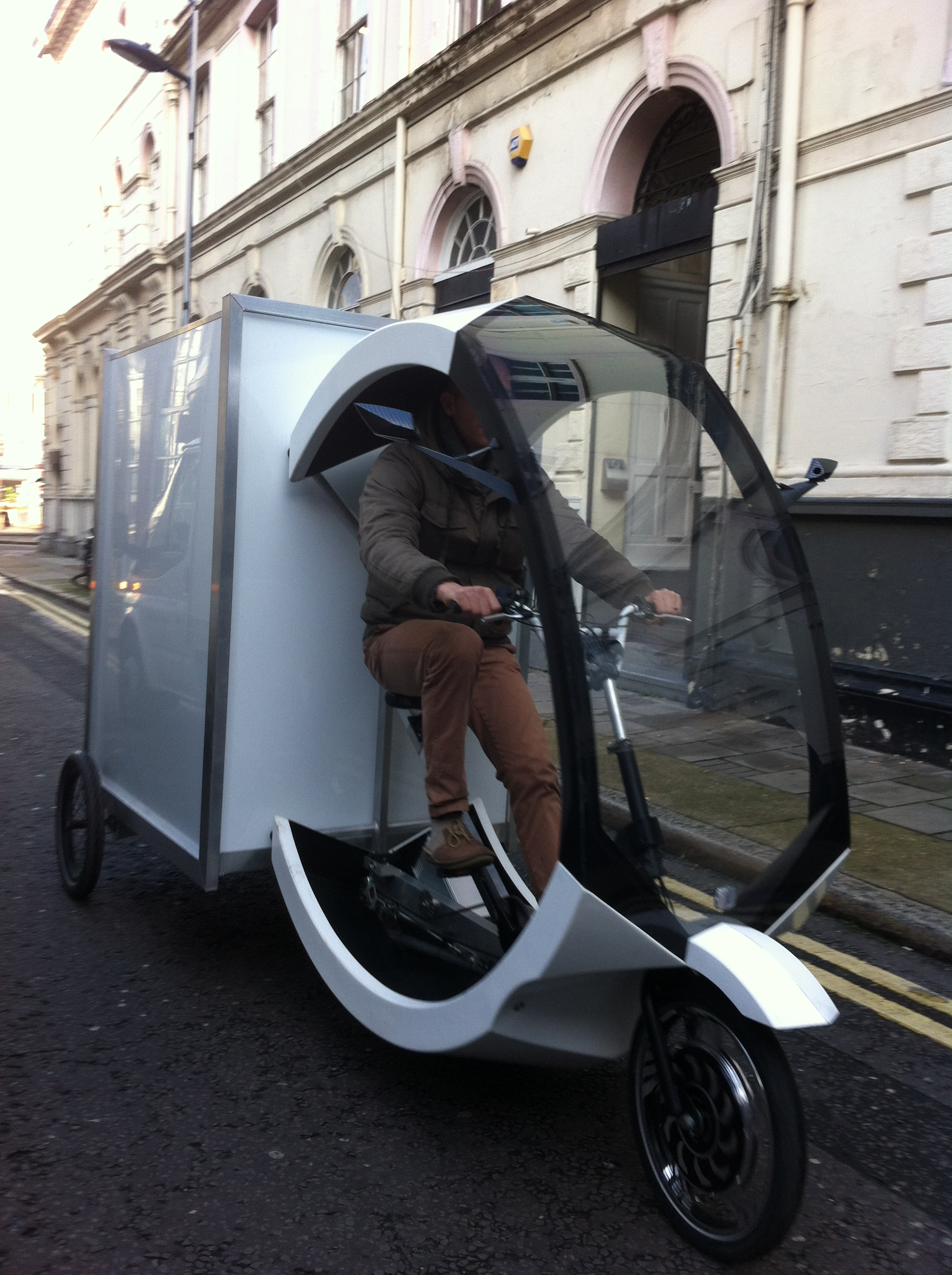 A modern styled cargo trike in use in London. This particular model is a UK design built by Bluebird Performance Engineering. It has an electric motor to assist the rider and can carry up to 250kg of freight.